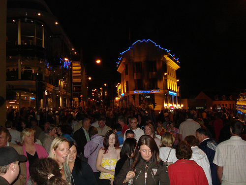 Letterkenny's revellers on the Main Street at night.